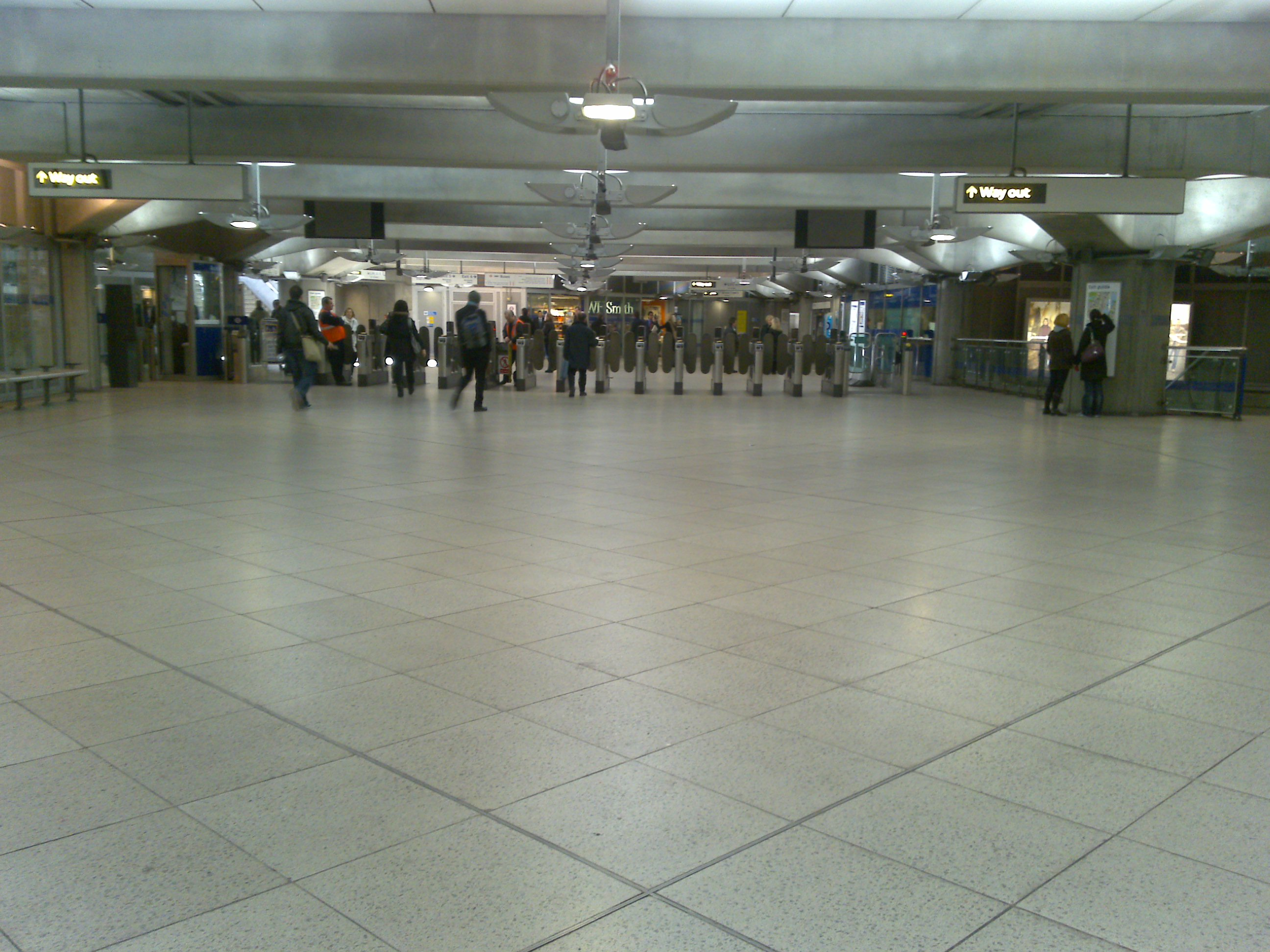 Westminster tube Station